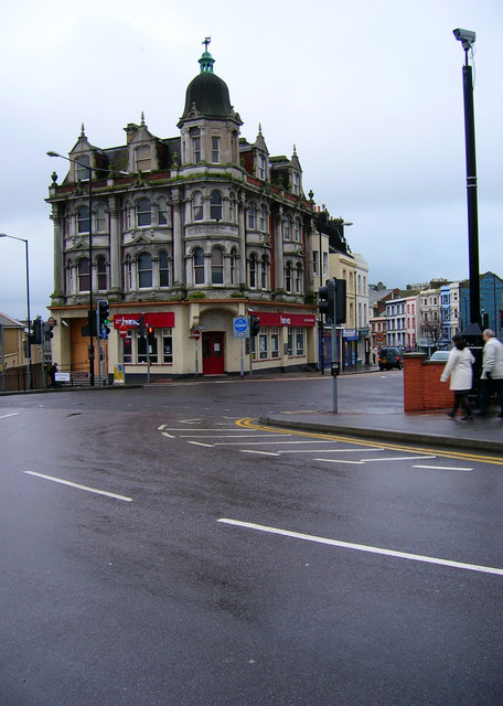 Heroes, Havelock Road Standing on the corner of Havelock Road and Devonshire Road a rather grubby old Victorian building in need of a good clean. The decor seems to suggest that the soot and grime have remained there since the age of steam! Havelock Road was built to connect the town with the station in 1852 and is a man made hill made from spill from one of the tunnels leading into the station.